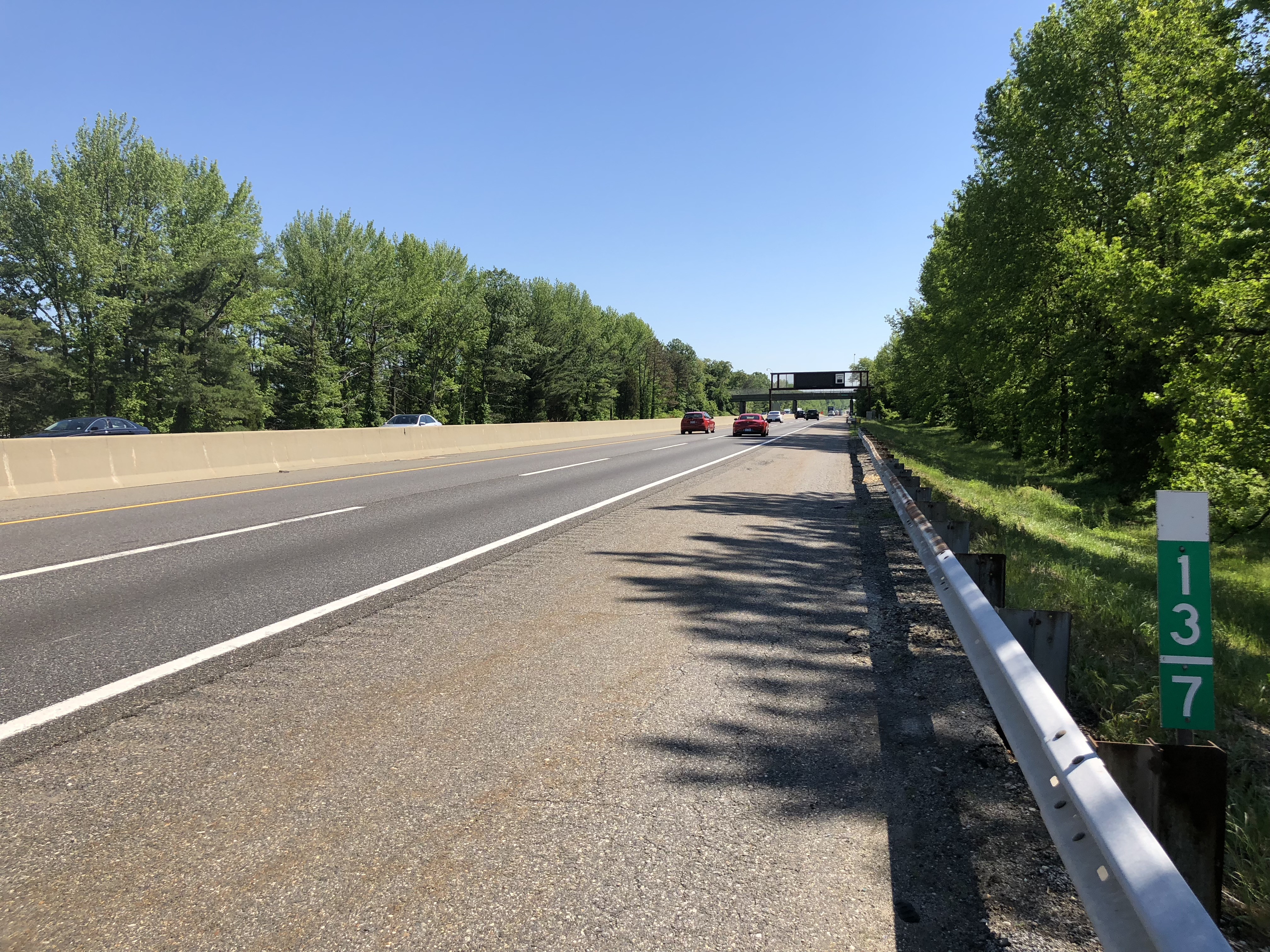 View north along New Jersey State Route 700 (New Jersey Turnpike) just north of Exit 2 in Harrison Township, Gloucester County, New Jersey